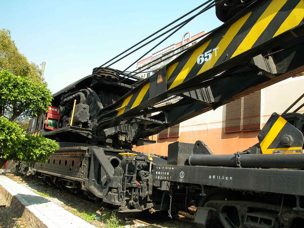 Steam crane in TRA Changhua Roundhouse.